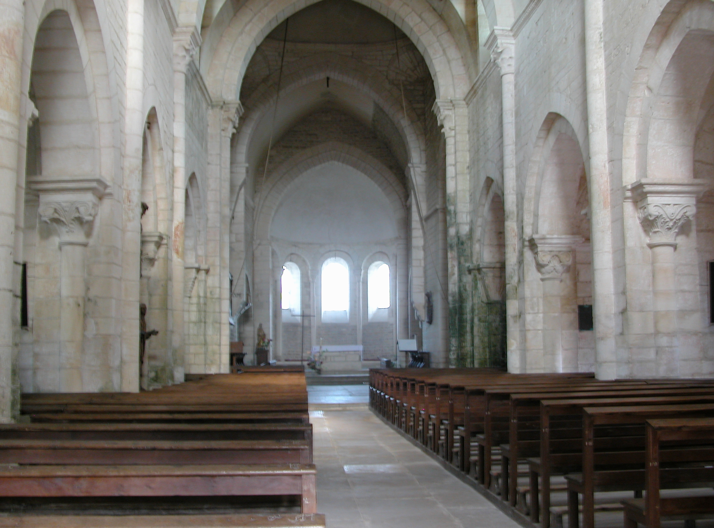 St. Florent Til Chatel, France Burgundy, cote d'or